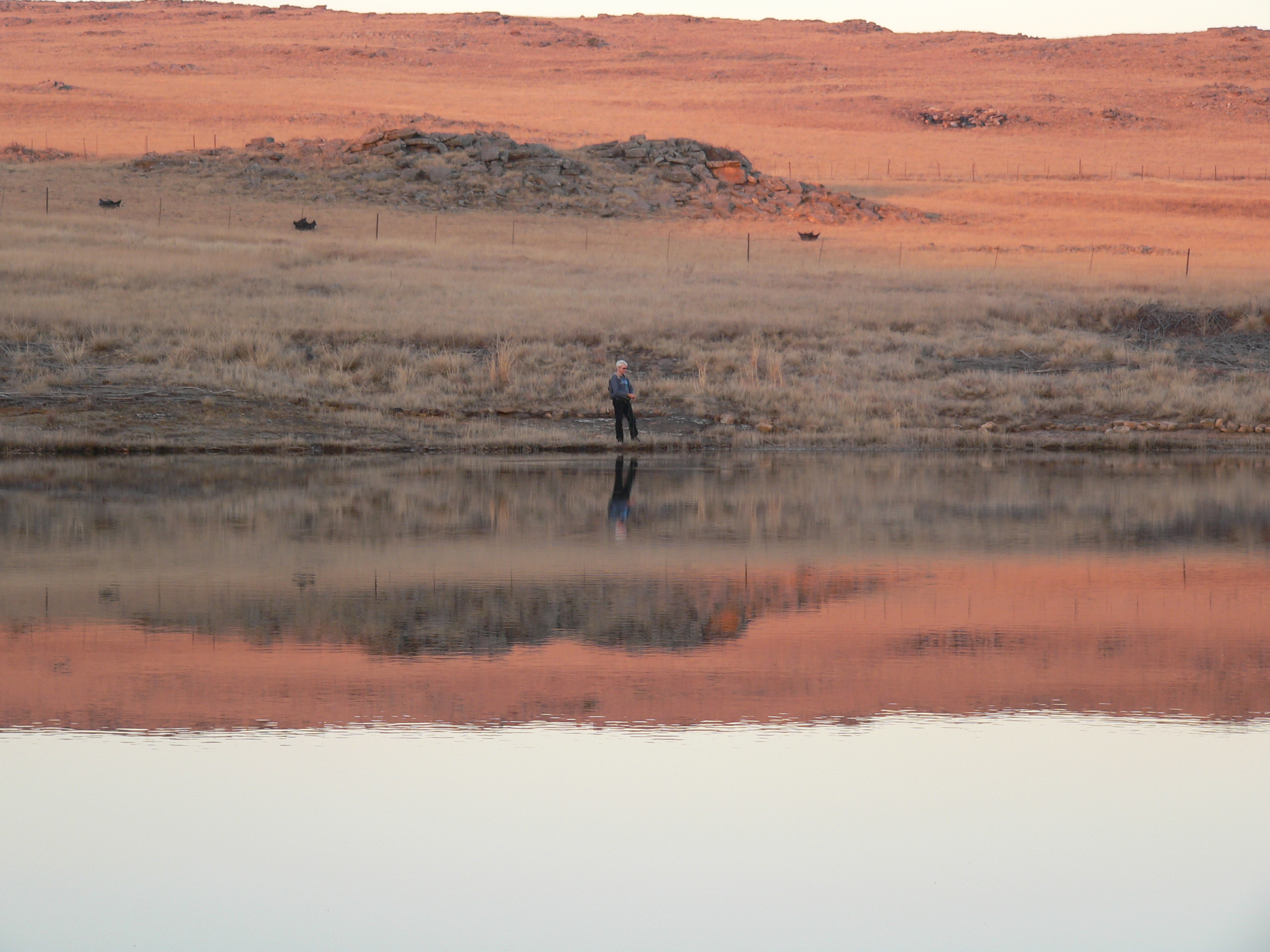 Flyfishing in Dullstroom